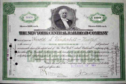 From 1919, thus public domain.